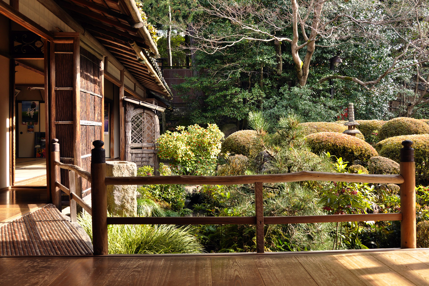 Garden and buildings at Shisen-dō, a Buddhist temple in Kyoto, Japan